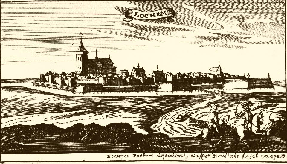 Panorama of the city Lochem in 1674